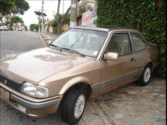 VW Apollo Guilherme